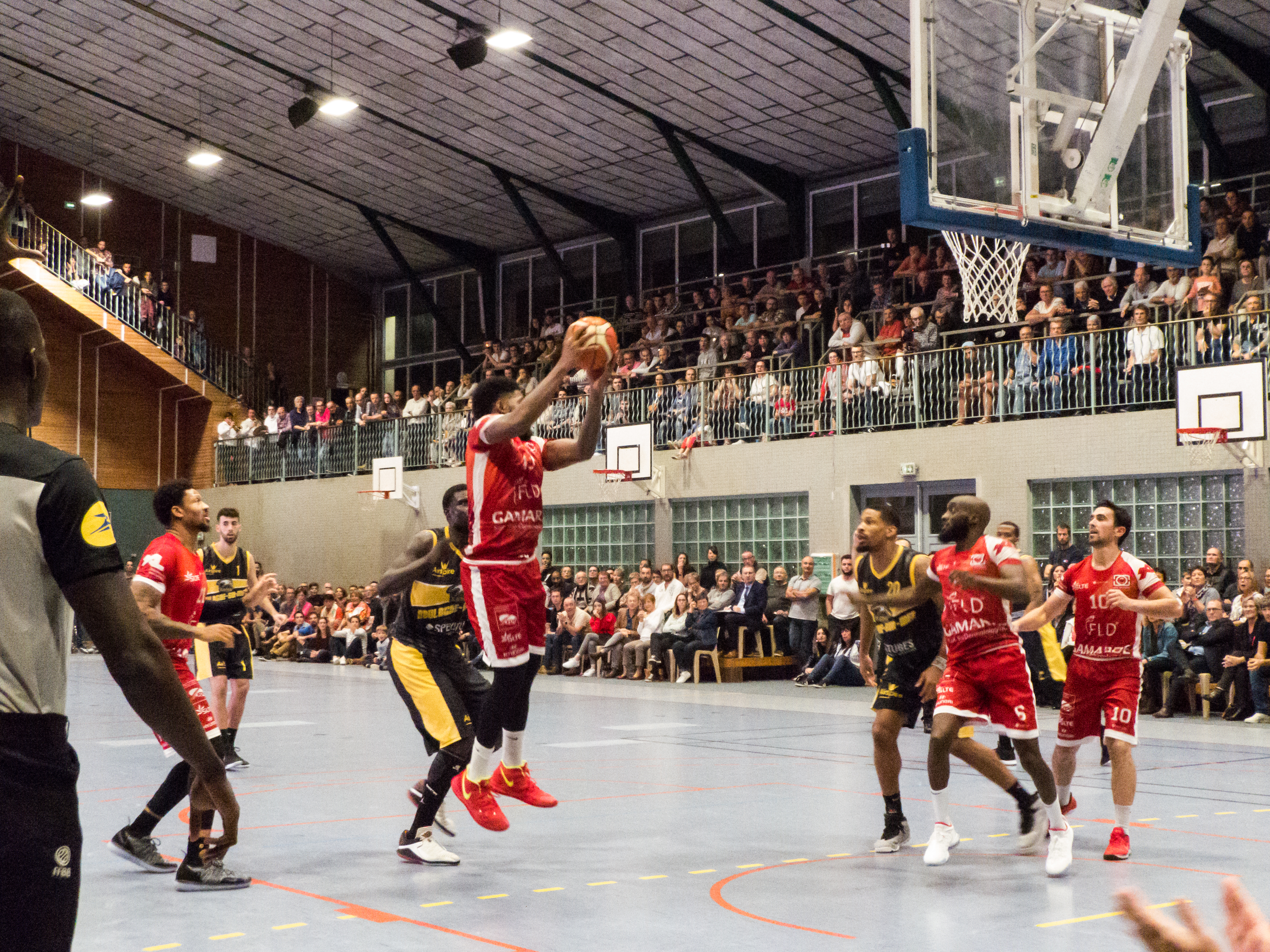 Nationale masculine 1 2019-2020 (basketball) — 25 October 2019, salle Maurice-Boyau. Match between: Q16644397 — Stade Olympique Maritime Boulonnais